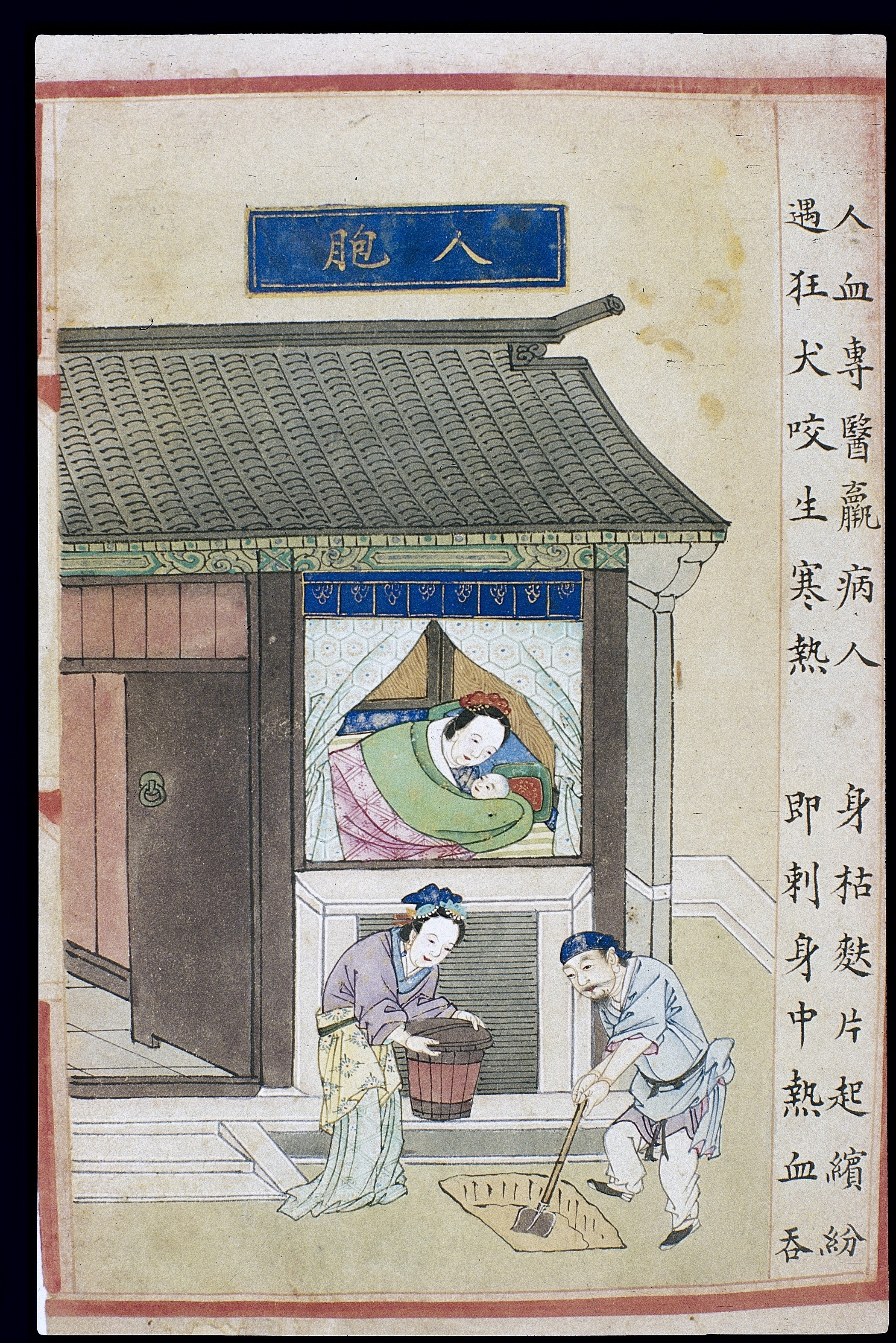 This painted illustration, headed 'Human placenta', comes fromBuyi Lei Gong paozhi bianlan(Supplement to Lei Gong's Guide to the Preparation of Drugs), edition of 1591 (19th year of the Wanli reign period of the Ming dynasty). It is a fine example of Ming polychrome book art.The painting depicts the widespread custom of burying the placenta. Framed in the window of her house, we see a woman reclining in bed cradling her newborn child in her arms. Her gaze draws ours towards the two other figures in the composition: another woman who is carrying out a chamber pot containing the placenta, and a man who is digging a hole to receive it.Painting in colour